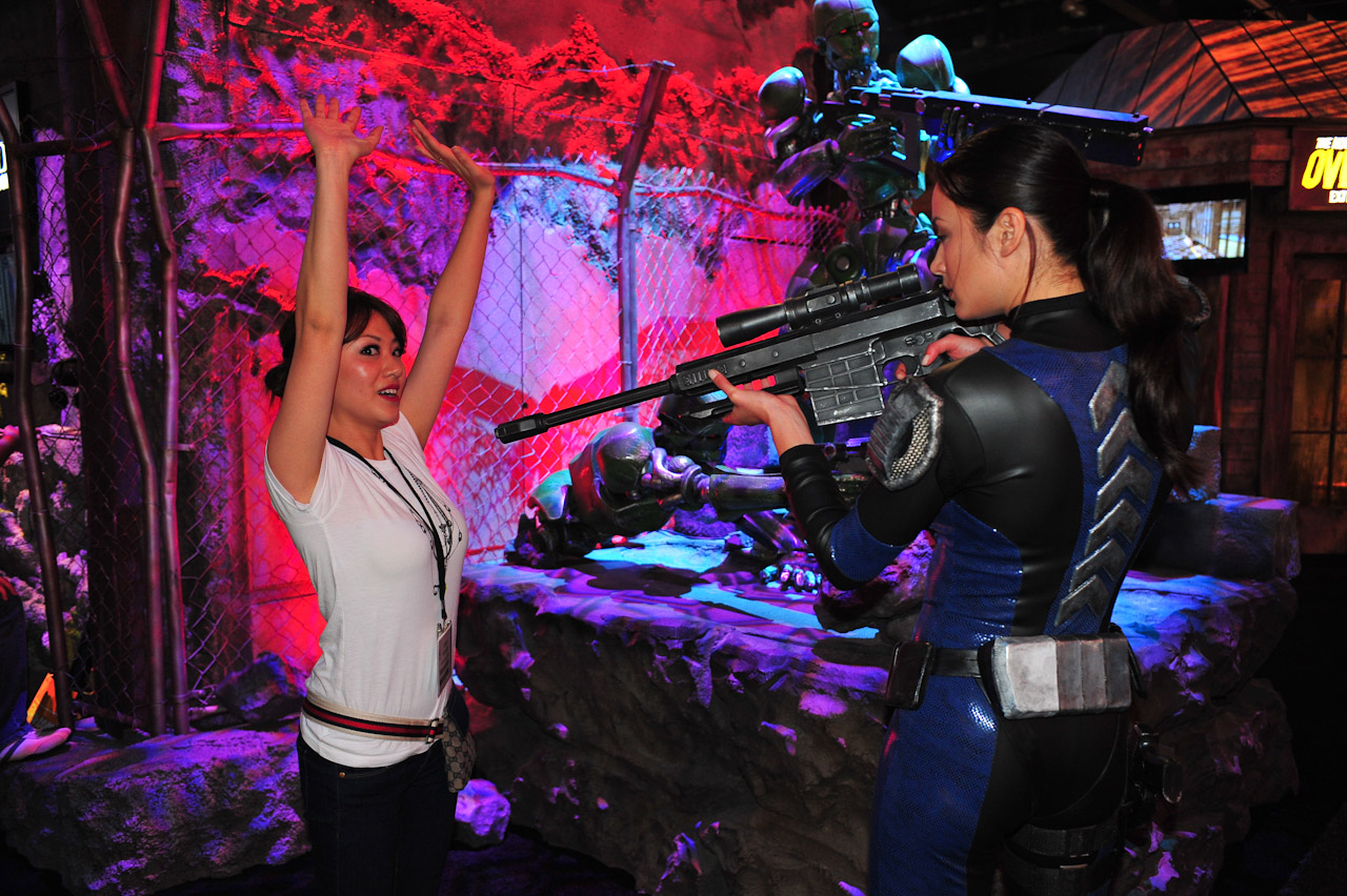 Taken on June 7, 2011 Nikon D700